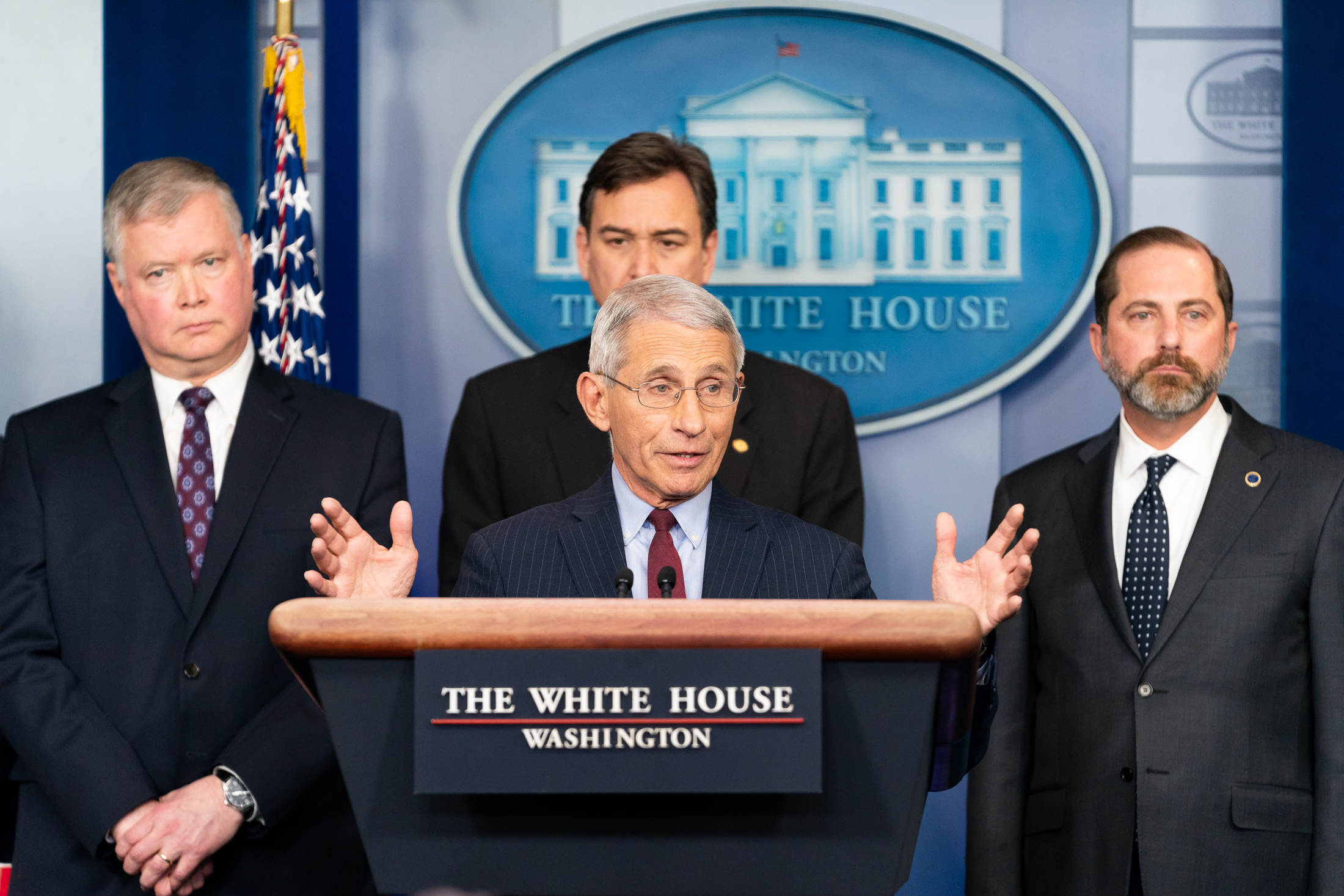 Dr. Anthony S. Fauci, Director of the National Institute of Allergy and Infectious Diseases, addresses a briefing on the latest information about the Coronavirus Friday, Jan. 31, 2020, in the James S. Brady Briefing Room of the White House. (Official White House Photo by Andrea Hanks)